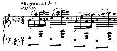 Excerpt form the beginning of the Étude Op. 25 No. 9 by Fryderyk Chopin.